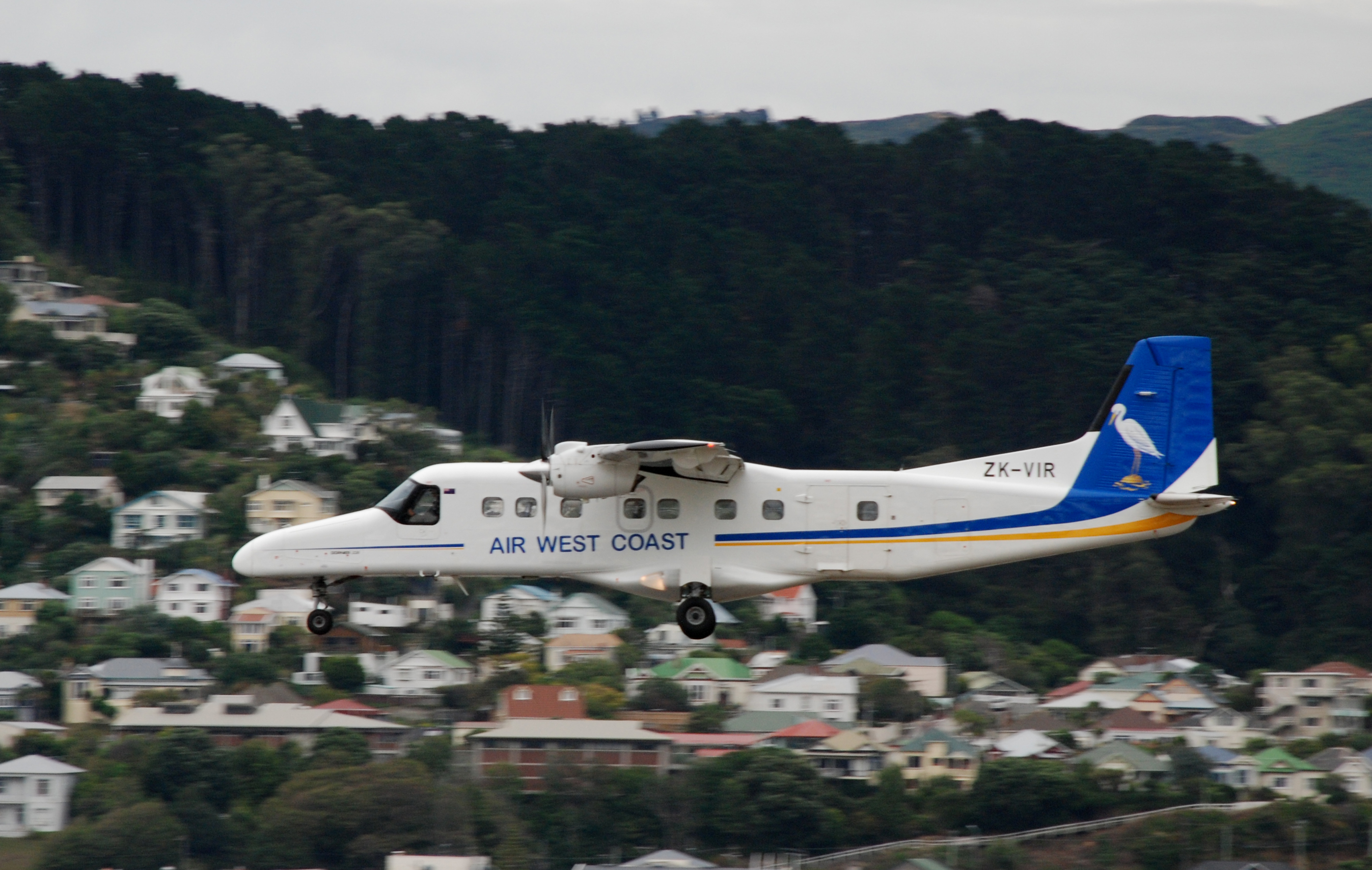 Dornier 228 of Air West Coast at Wellington International Airport, Wellington, New Zealand